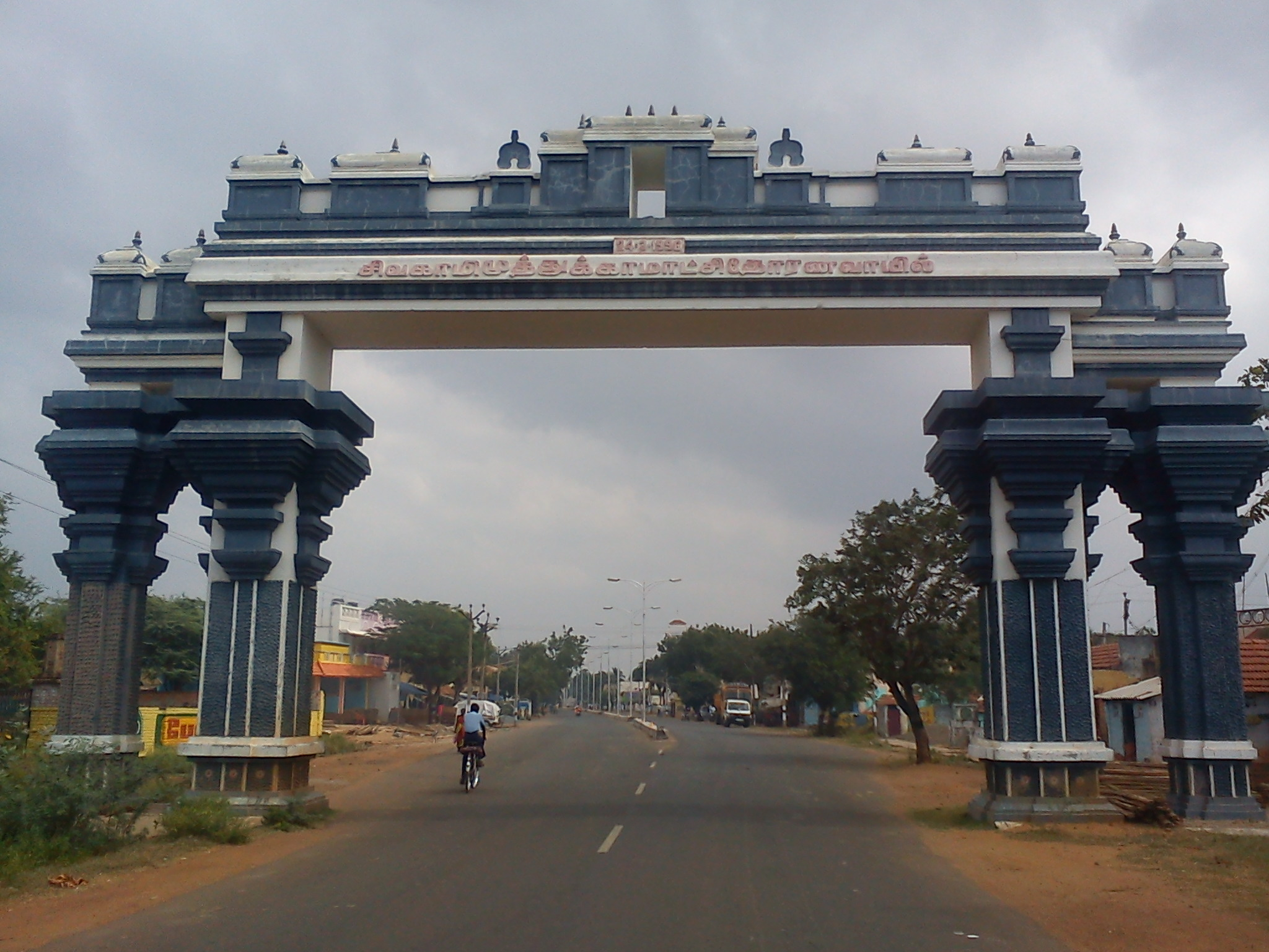 This is my own work about sivagangai landmark